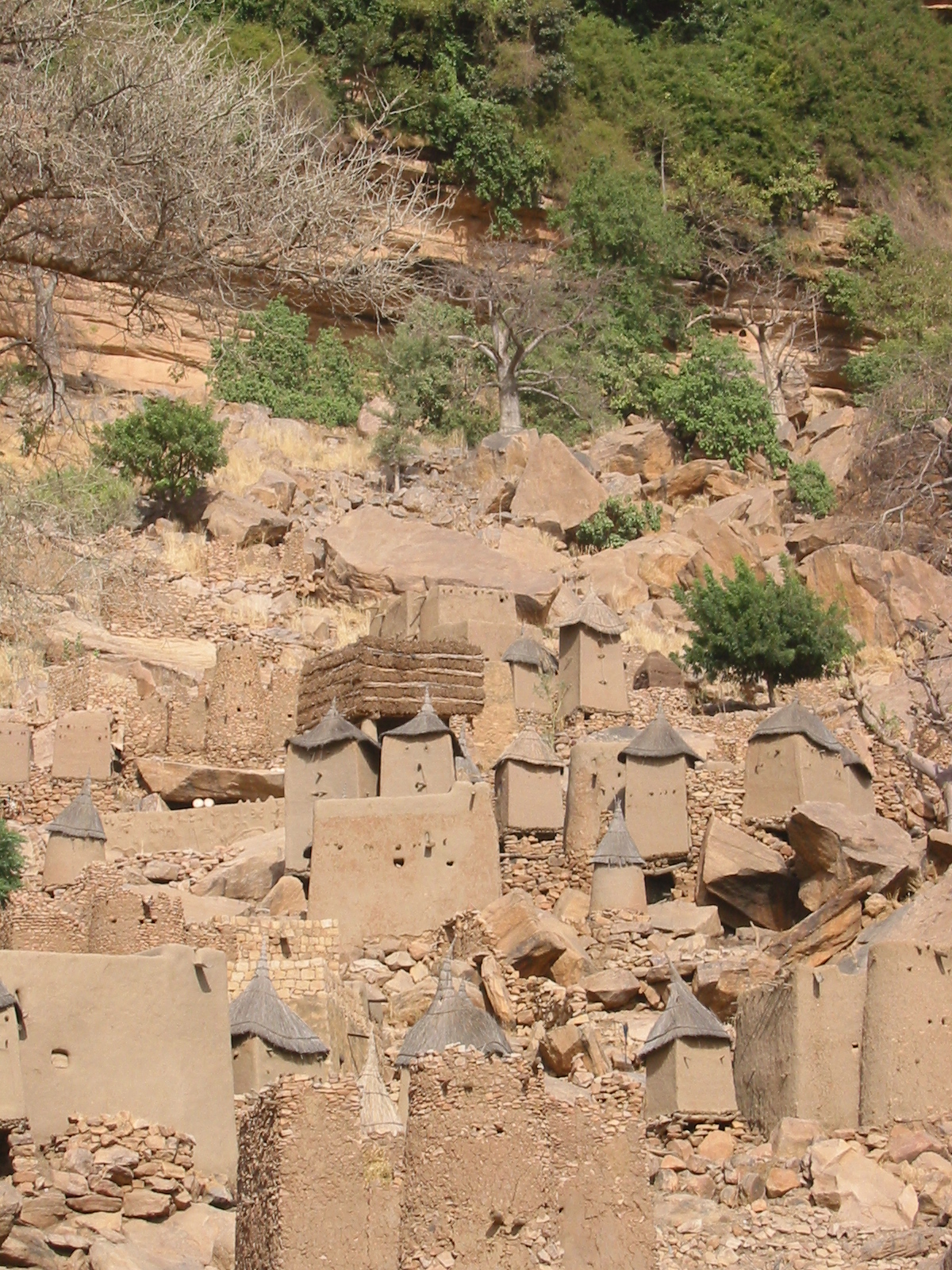 Banani village, Land of the Dogons, Mali.